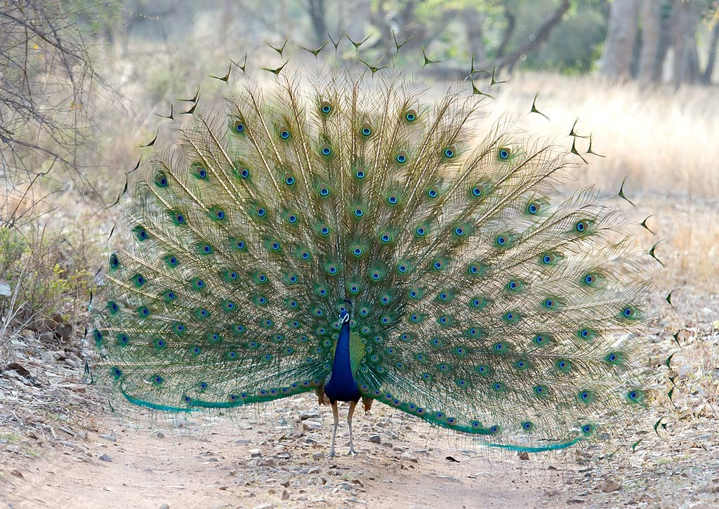 Male Peacock in courtship display at Ranthambhore Tiger Reserve